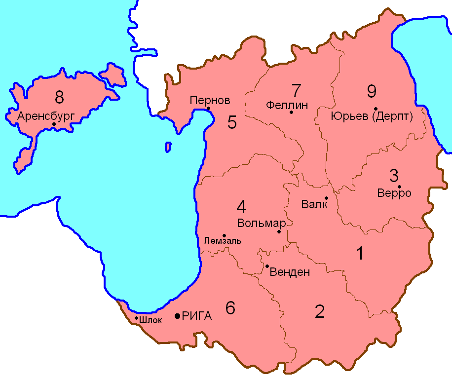 Circuits of the Governorate of Livonia